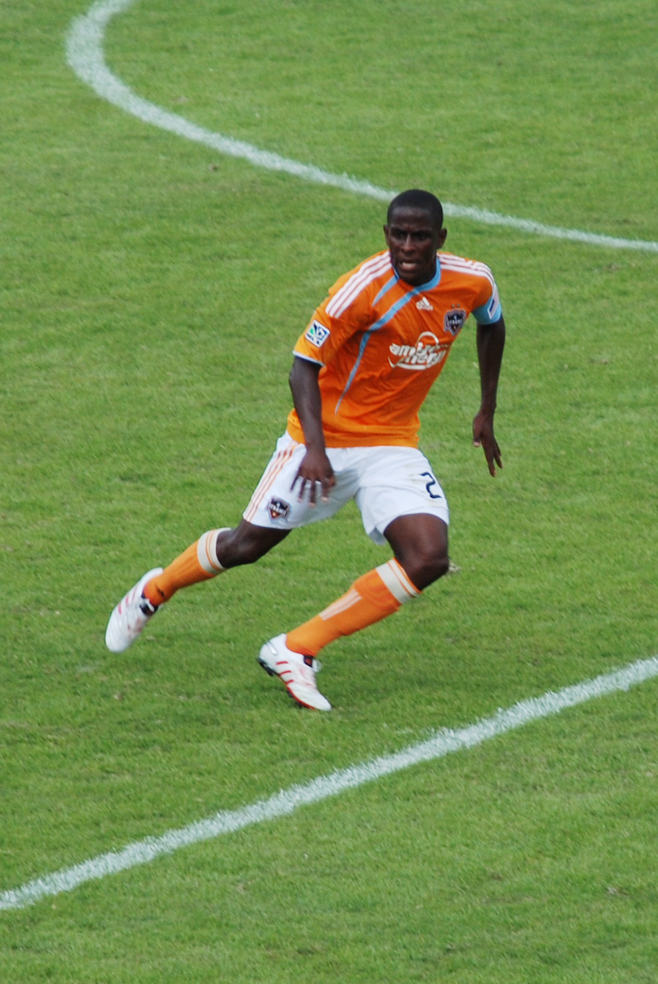 Houston v. Chivas USA